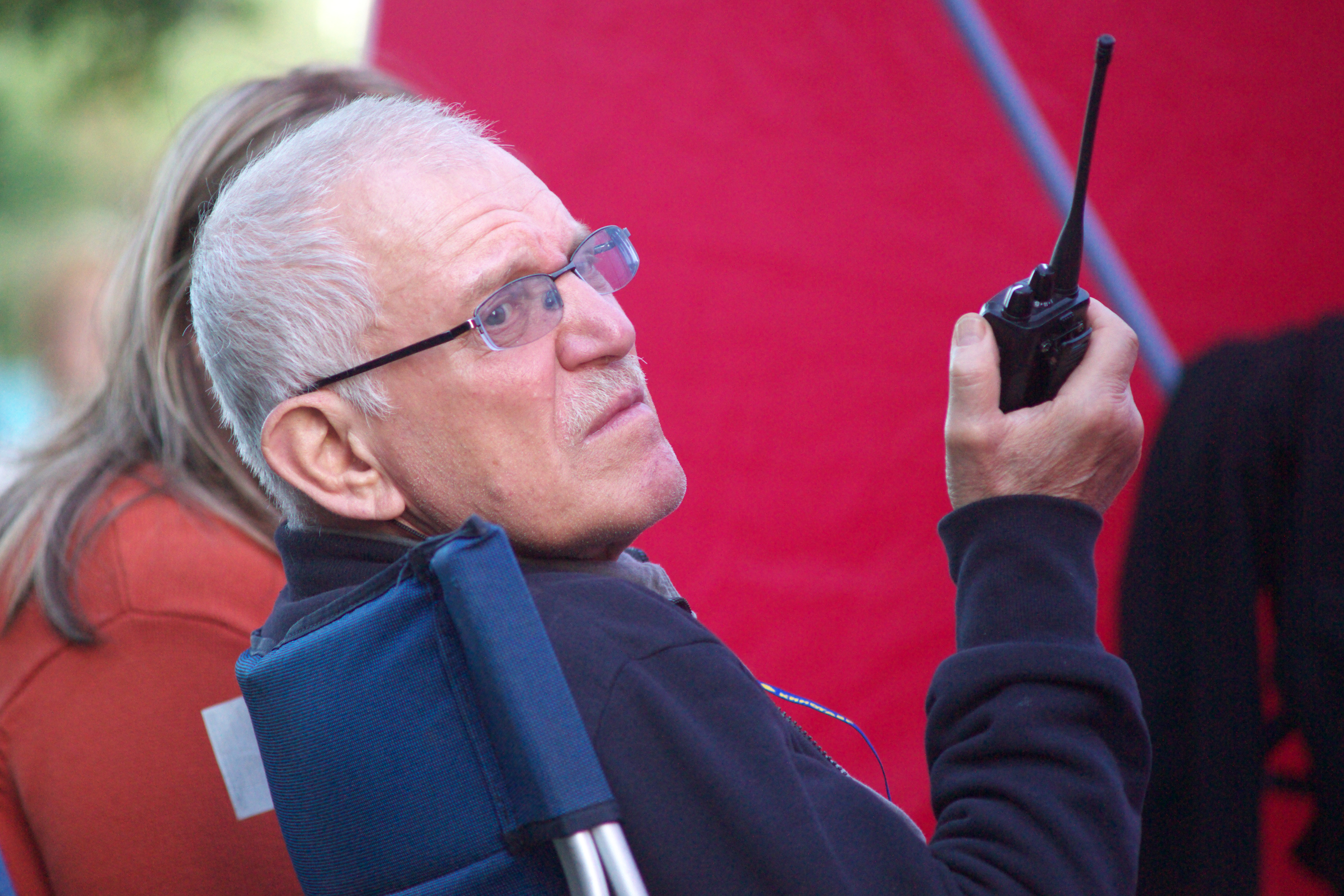 Alexander Naumovich Mitta a Soviet and Russian film director, screenwriter and actor